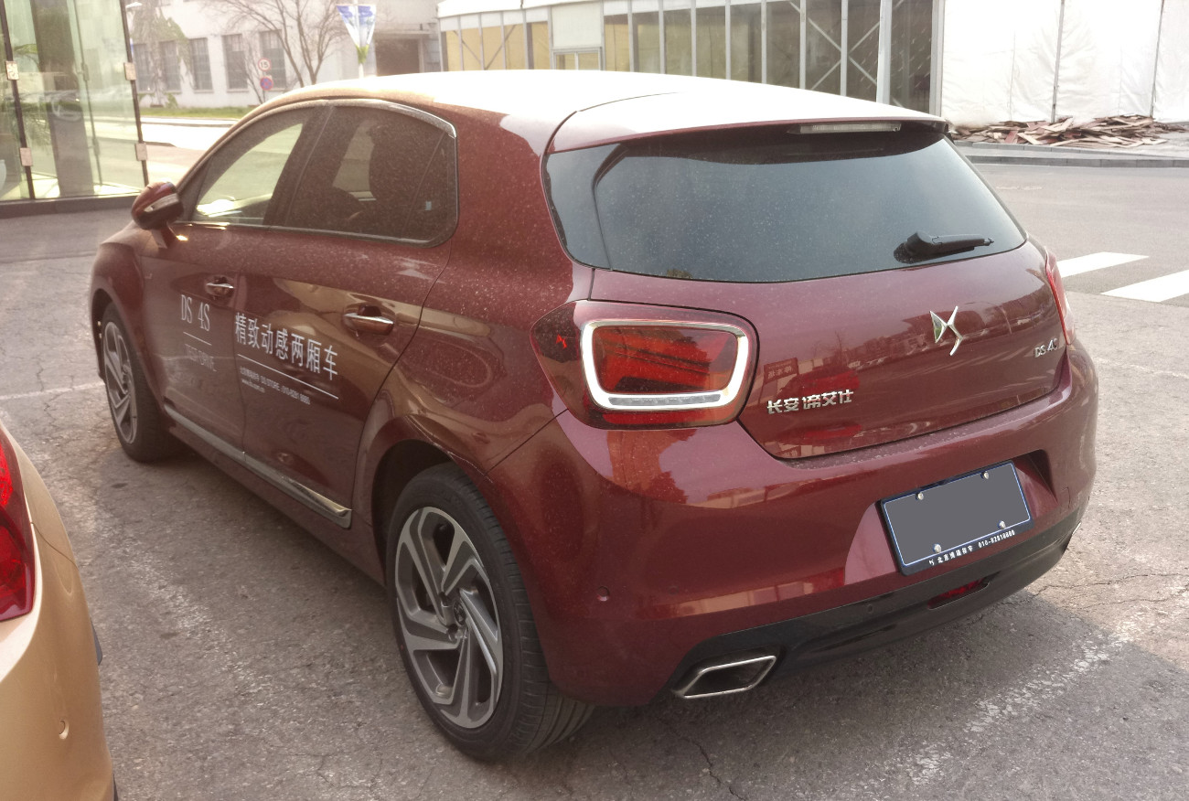 DS 4S photographed in Beijing, China.